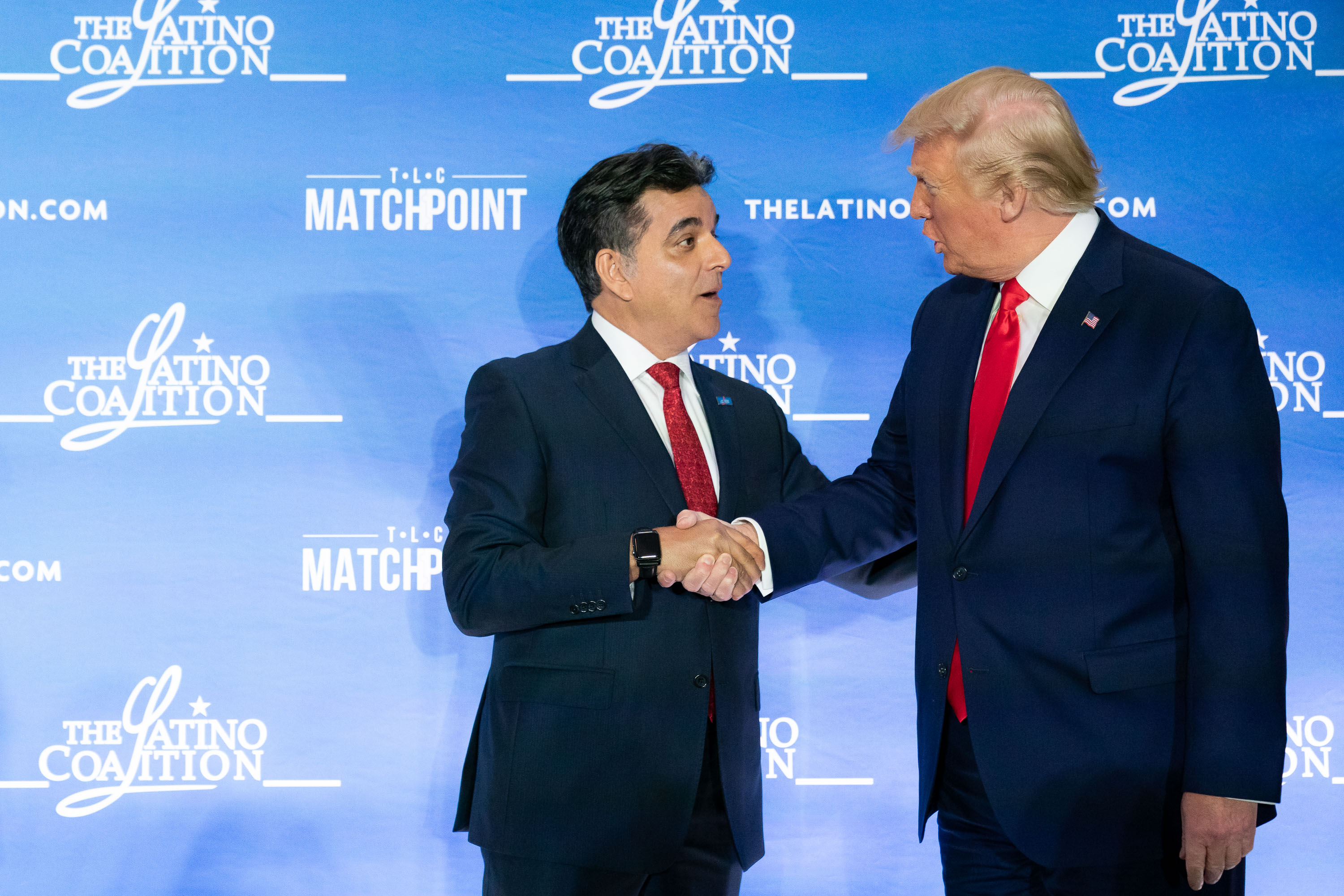 President Donald J. Trump is greeted by Latino Coalition Chairman Hector Barreto prior to delivering remarks at the Latino Coalition Legislative Summit Wednesday, March 4, 2020, at the JW Marriott in Washington, D.C. (Official White House Photo by Tia Dufour)